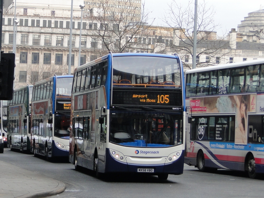 19472-mx58vbo-piccadilly-04_02_12 (1280x960)